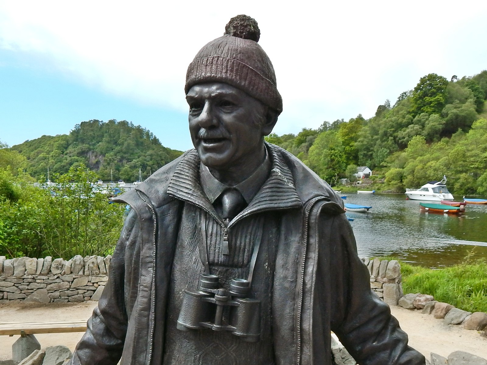 Tom Weir statue: detail